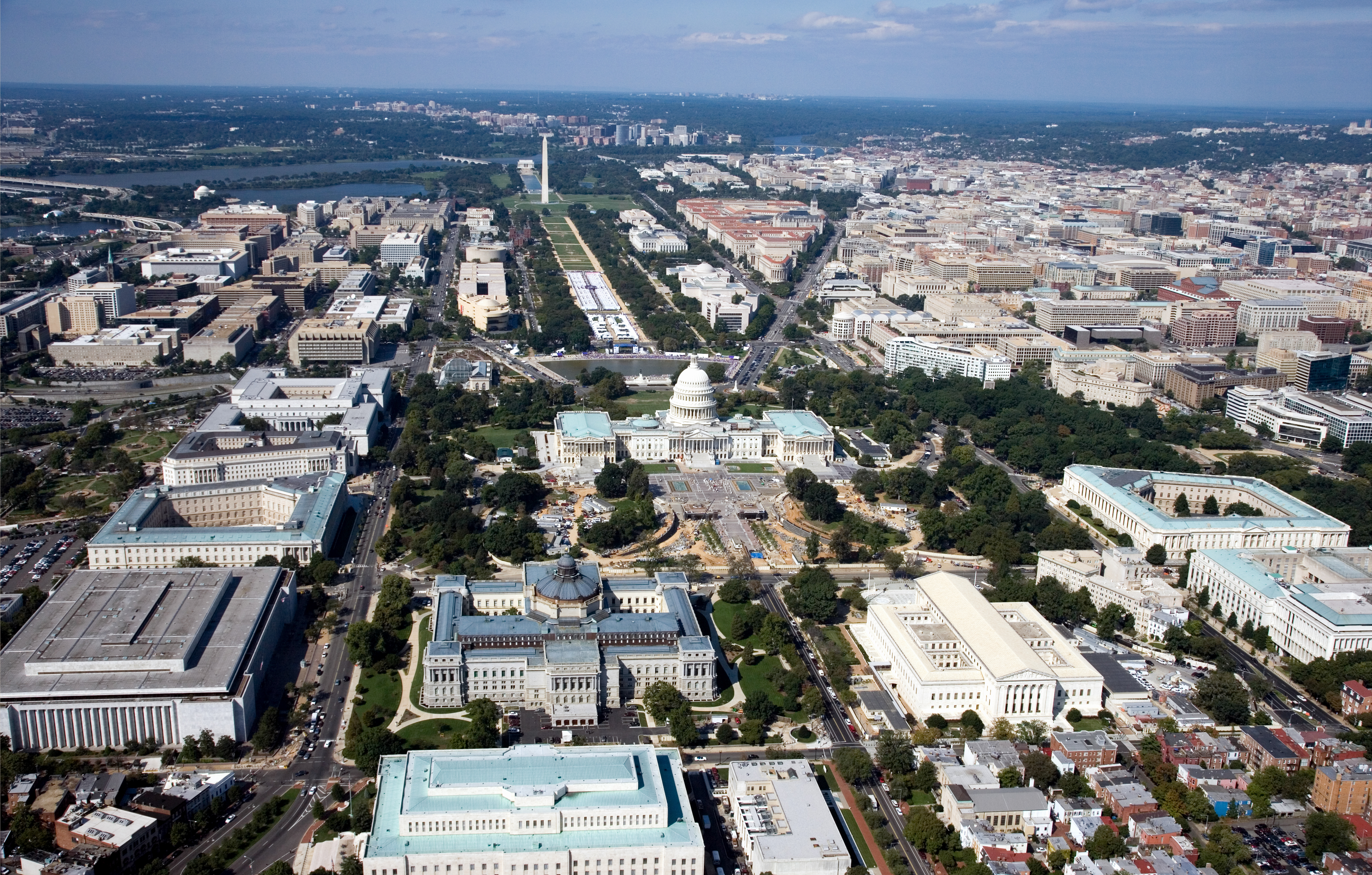 Aerial view (looking west) of Capitol Hill and the National Mall in Washington, D.C. The gov't buildings in the foregrounds: The white-domed building at the center is the US Capitol. In front of the Capitol: (right) with a pale-beige roof and a portico is the Supreme Court; (left) with a blue-gray dome and roof is the Library of Congress's Thomas Jefferson Bldg. (Bottom-middle of photo) In front to the Jefferson Bldg are two more Library buildings: (left) the large pale-blue one is the Adams Bldg., and (right) the small gray one is the Shakespeare Library. (Lower left of photo) The massive gray block is the Library's Madison Bldg. Behind the Madison Bldg and to the left of the Capitol are the three House Office Buildings. (Right of photo) To the right of the Capitol and Supreme Court, the pair of rectangular buildings with pale-blue roofs and inner courtyards are the Senate Office Buildings. Together with the House offices, they are the congressional office buildings. See also this simplified map